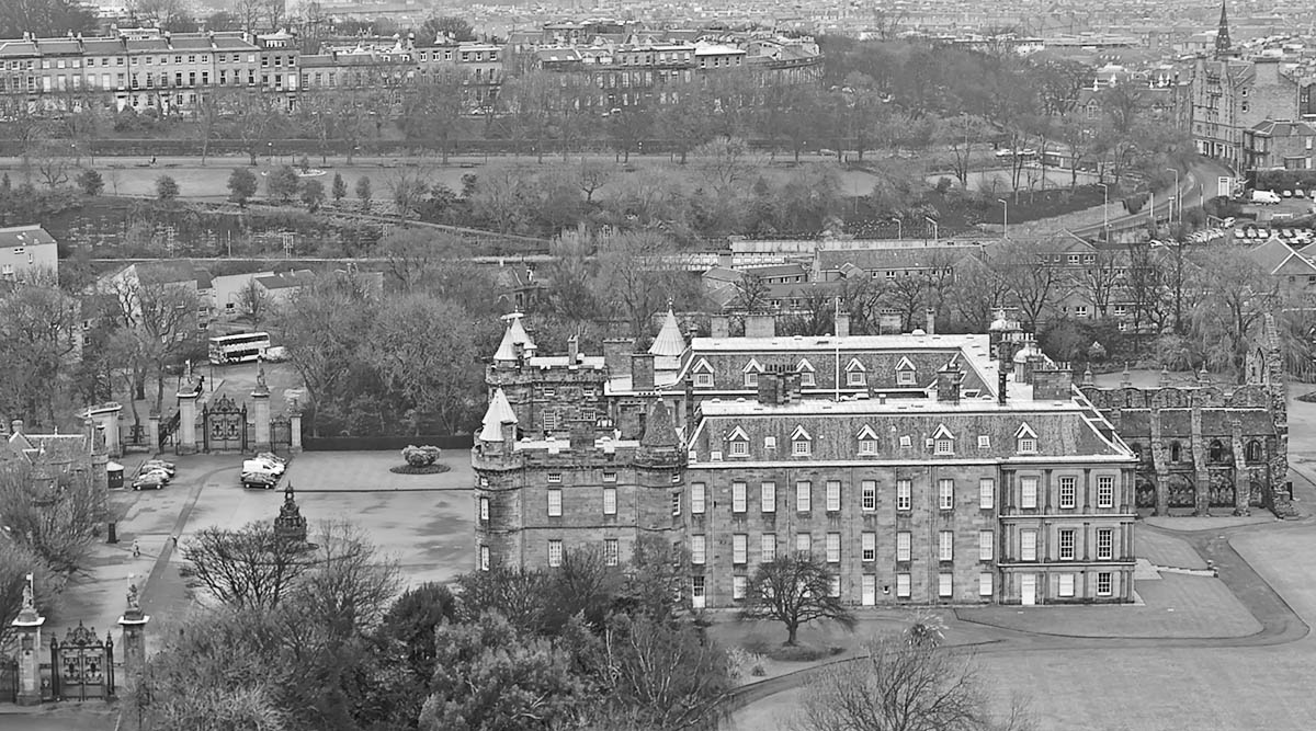 Holyrood Palace and Abbey Author: Antony McCallum